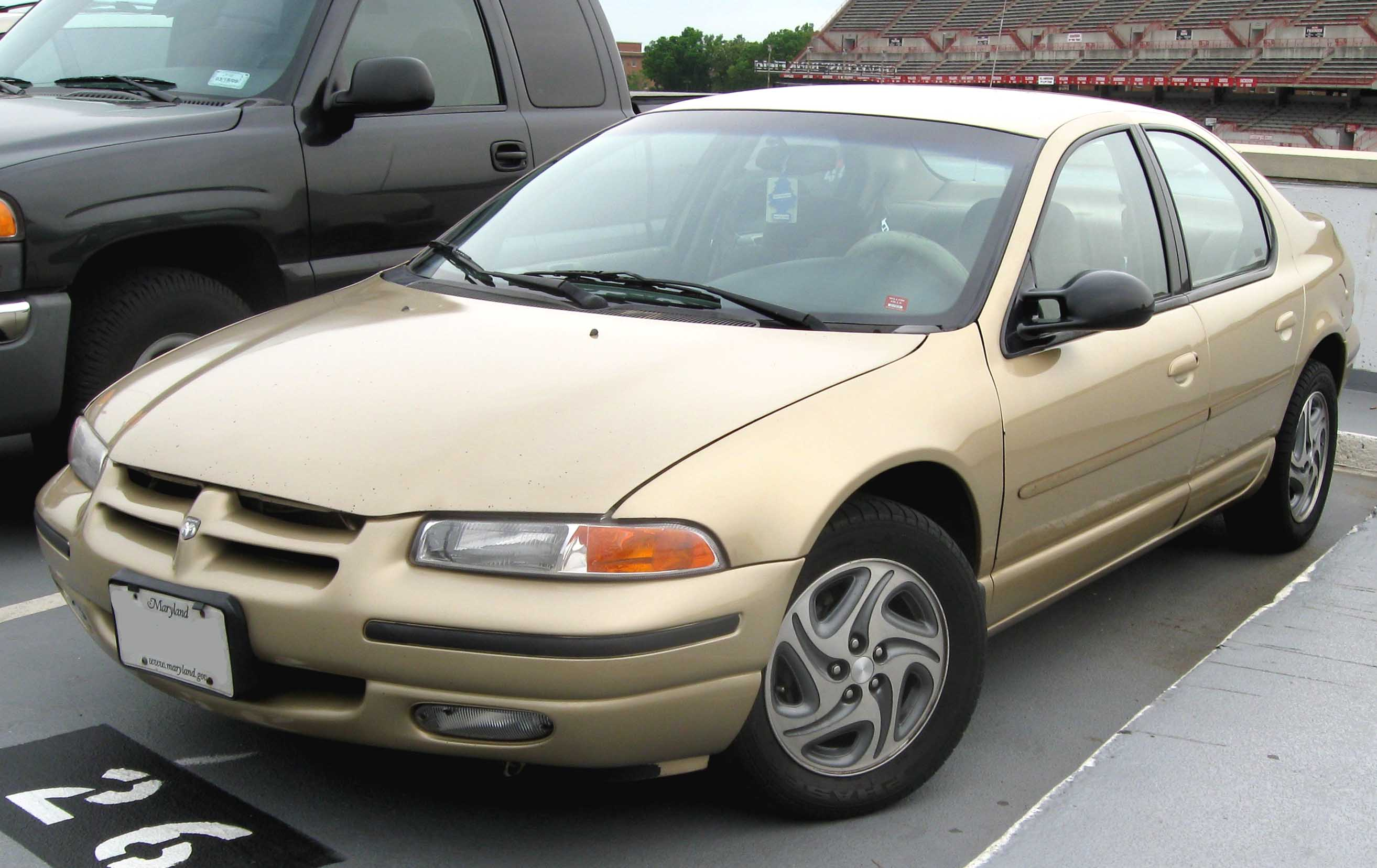 Dodge Stratus photographed in College Park, Maryland, USA.